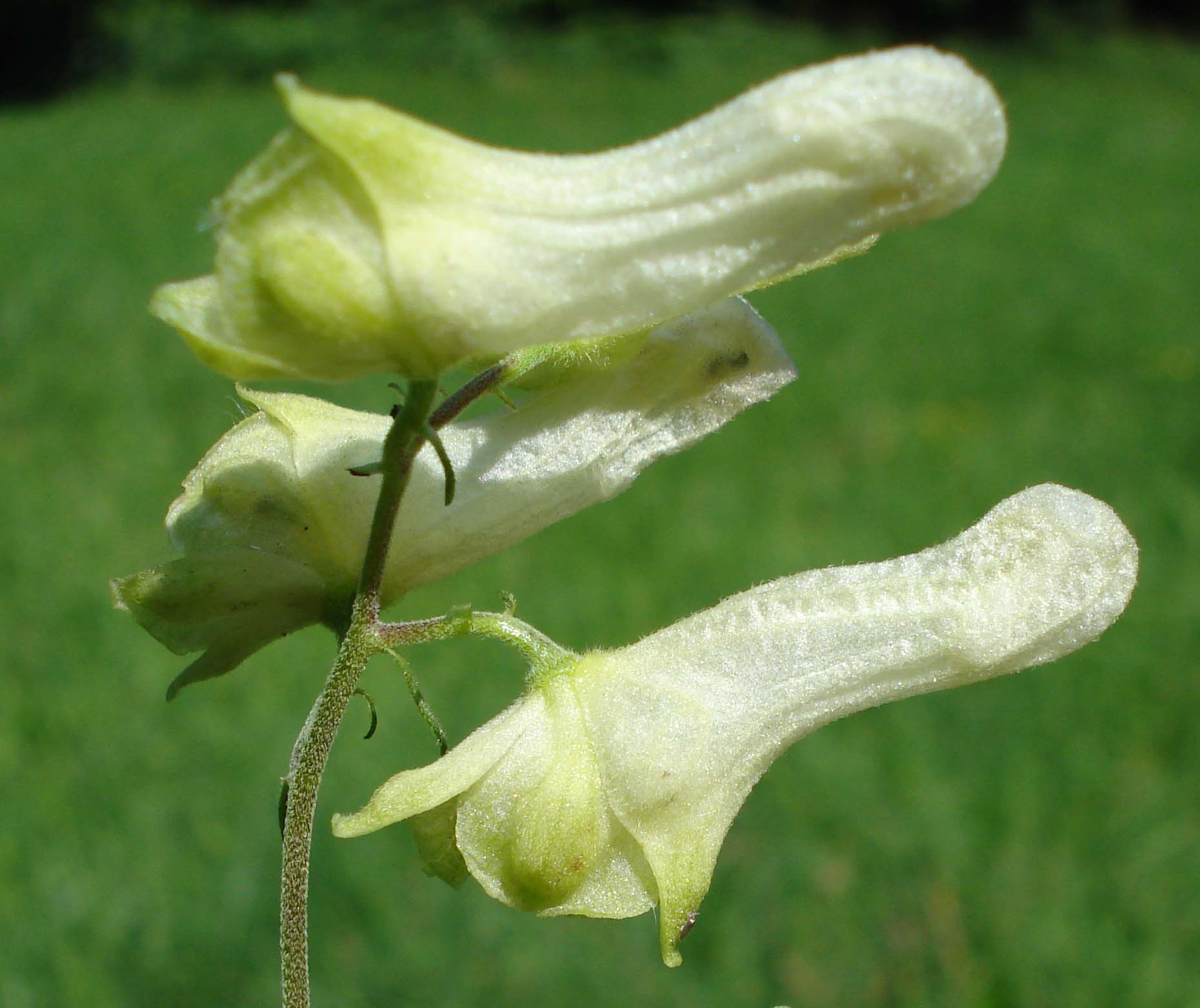 Aconitum lycoctonum subsp. lycoctonum (Unterfranken, Germany)